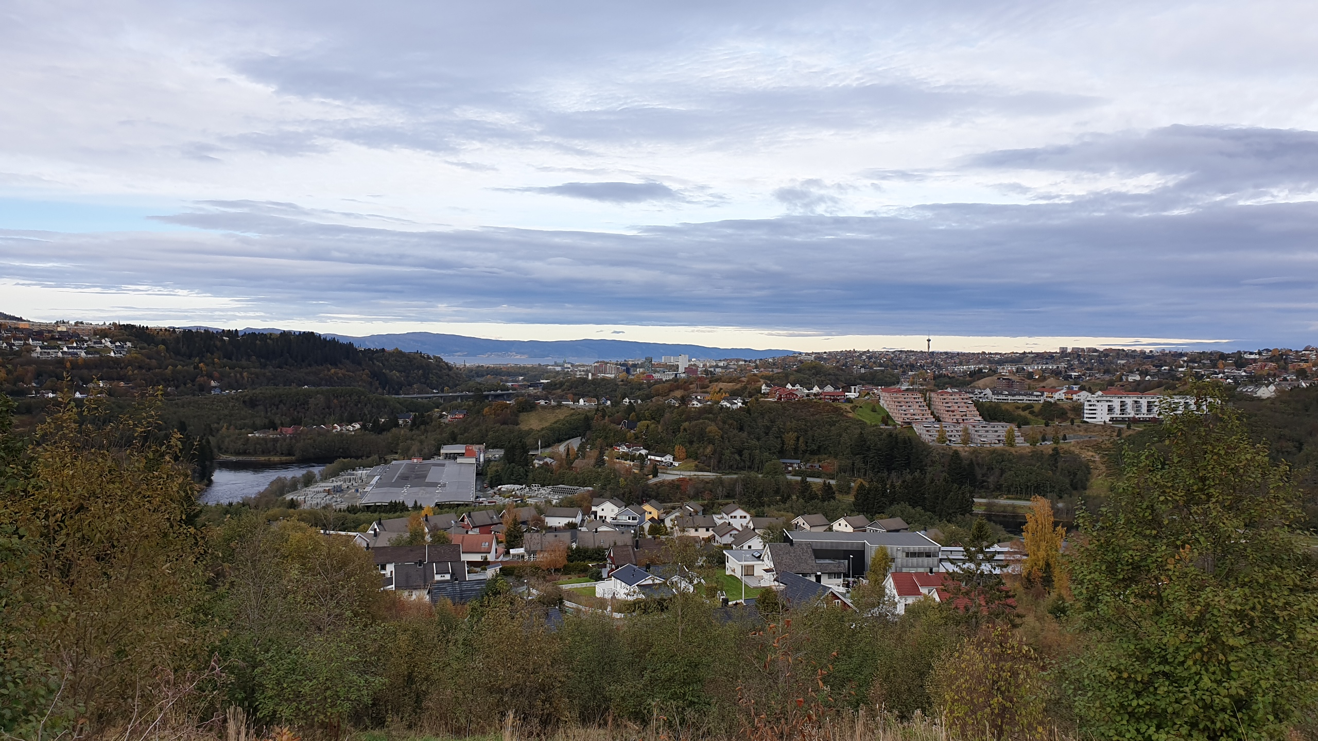 Picture of the view of Trondheim, looking north from Okstadplassen. You can see the fjord, Tyholt Tårnet and Trondheimsporten